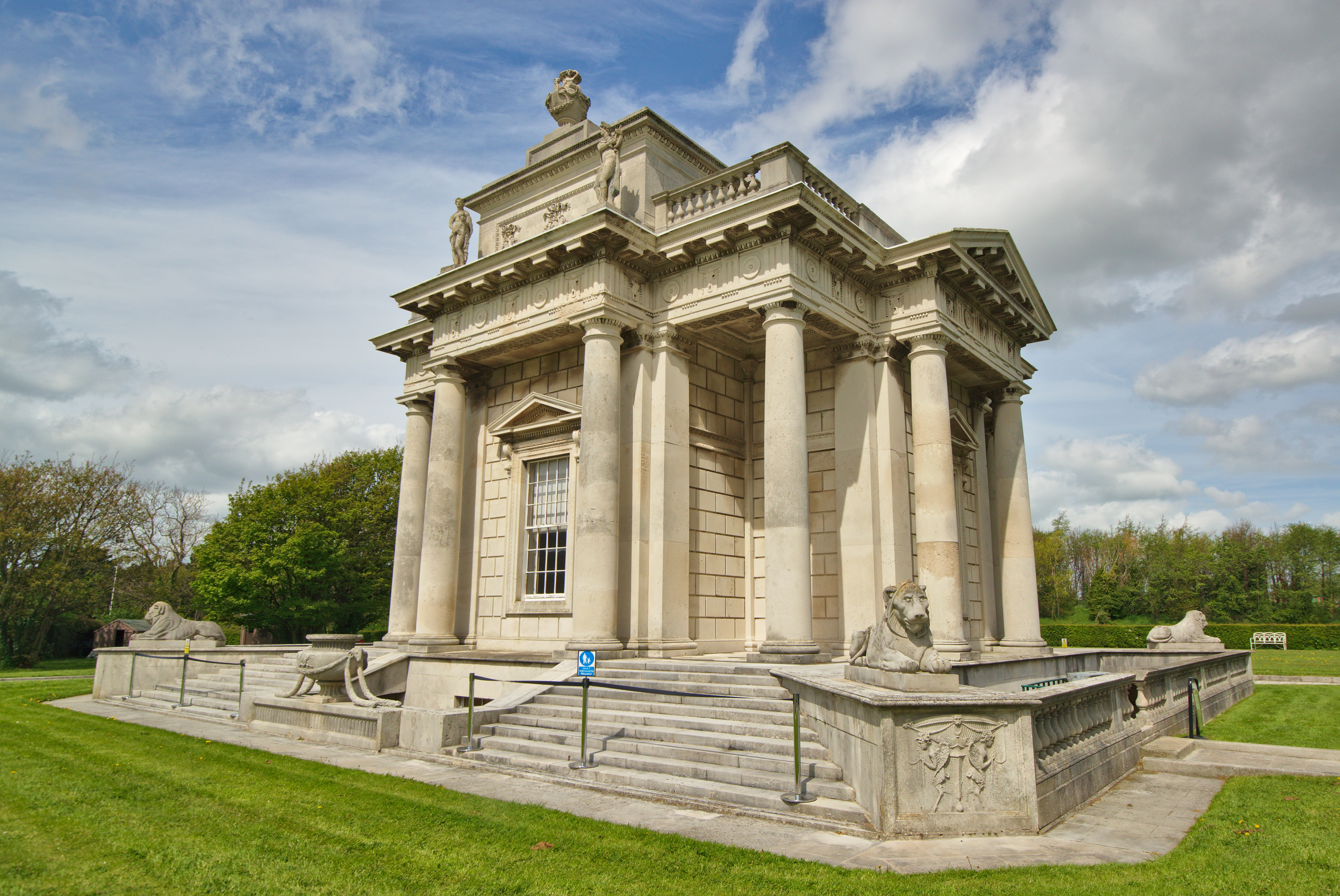 Casino at Marino, Dublin